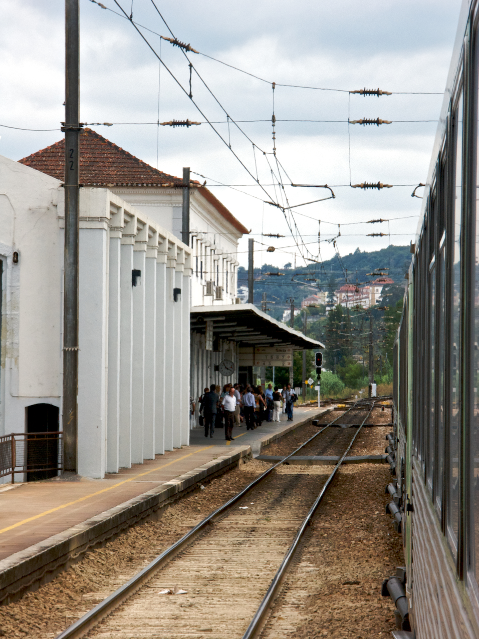 Railway Station Coimbra-B